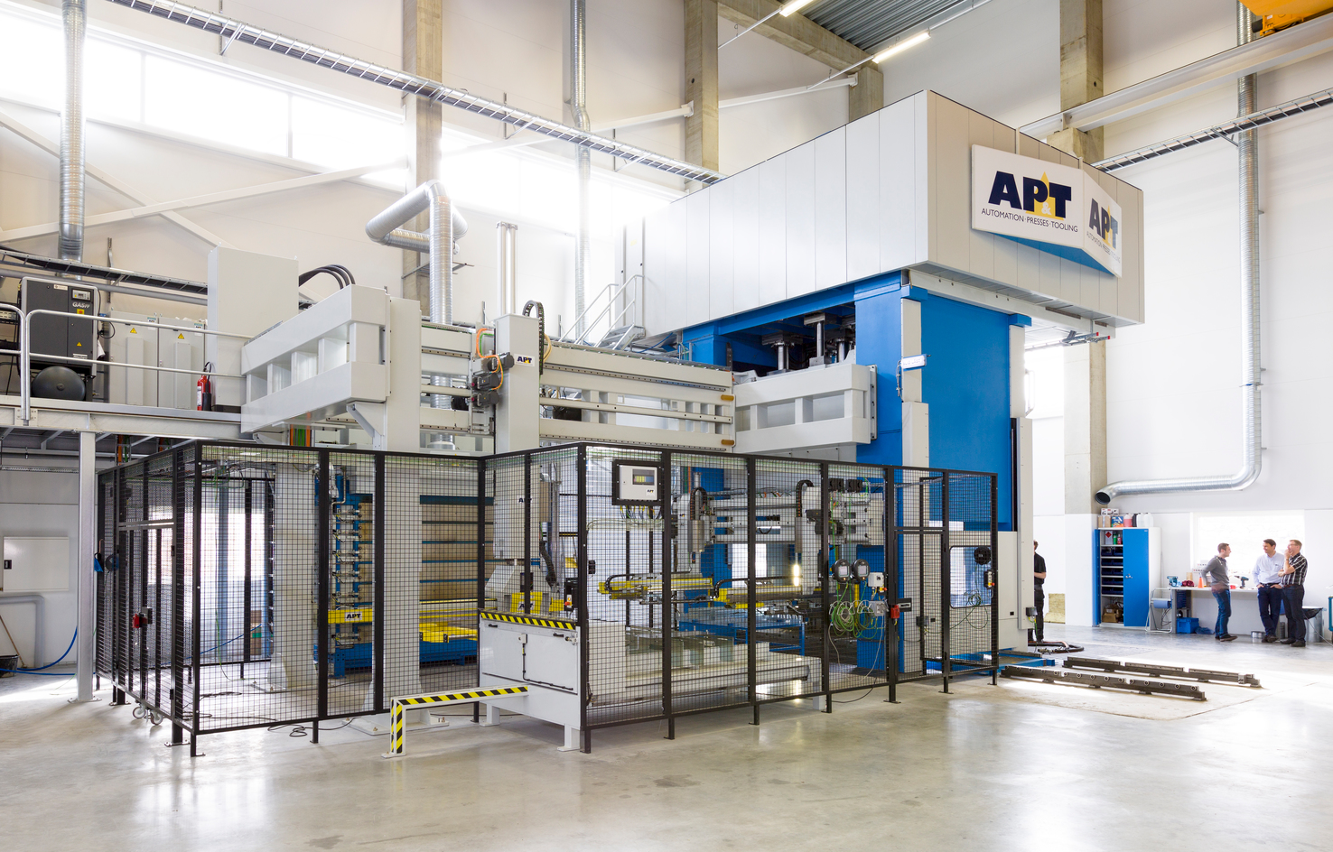 The AP&T press hardening line for tool try out and R&D located in Ulricehamn, Sweden. The press line is also very useful for low volume production of press hardened parts.